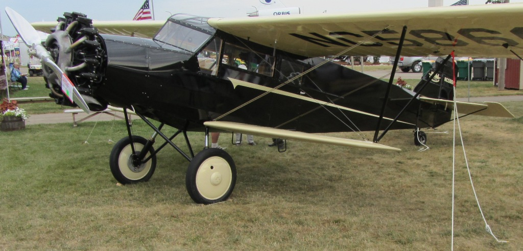 Buhl CA-3C Airsedan